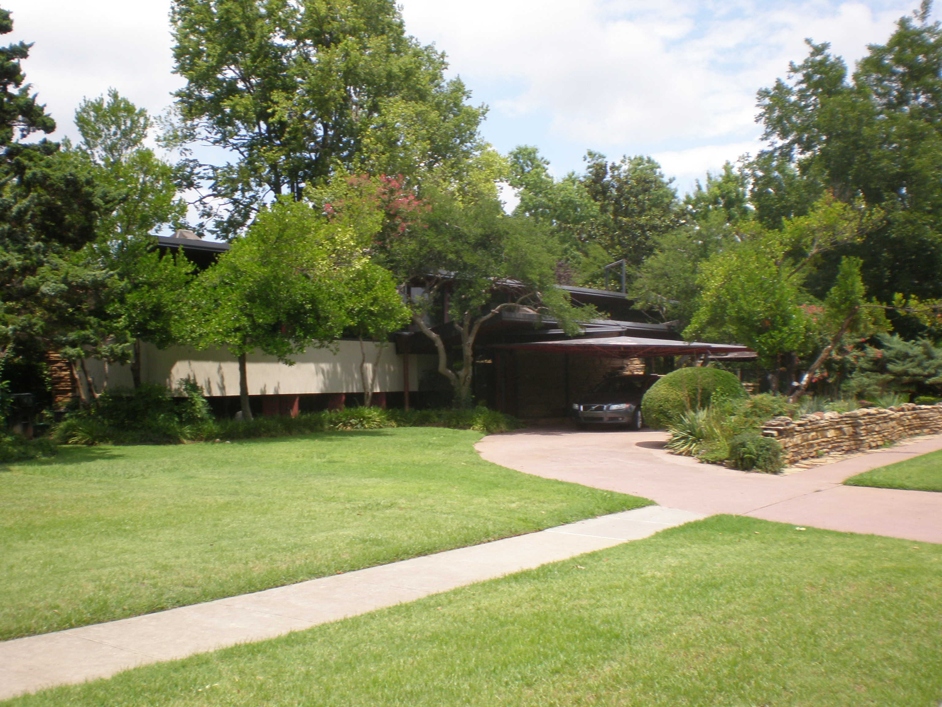 Exterior view of the Ledbetter House in Norman, Oklahoma. Designed by Expressionist architect Bruce Goff in 1948, it is on the National Register of Historic Places.